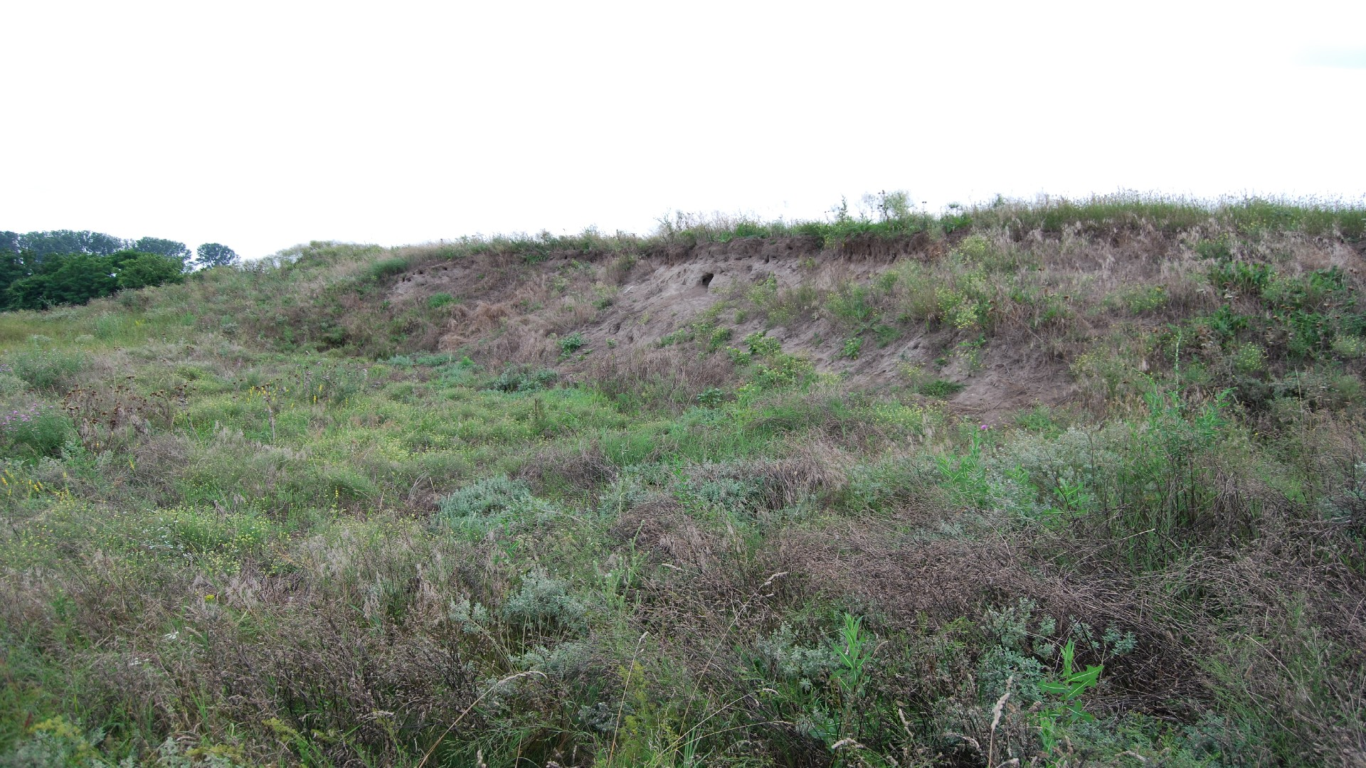 Archeological site Matejski brod(ship) in Novi Bečej